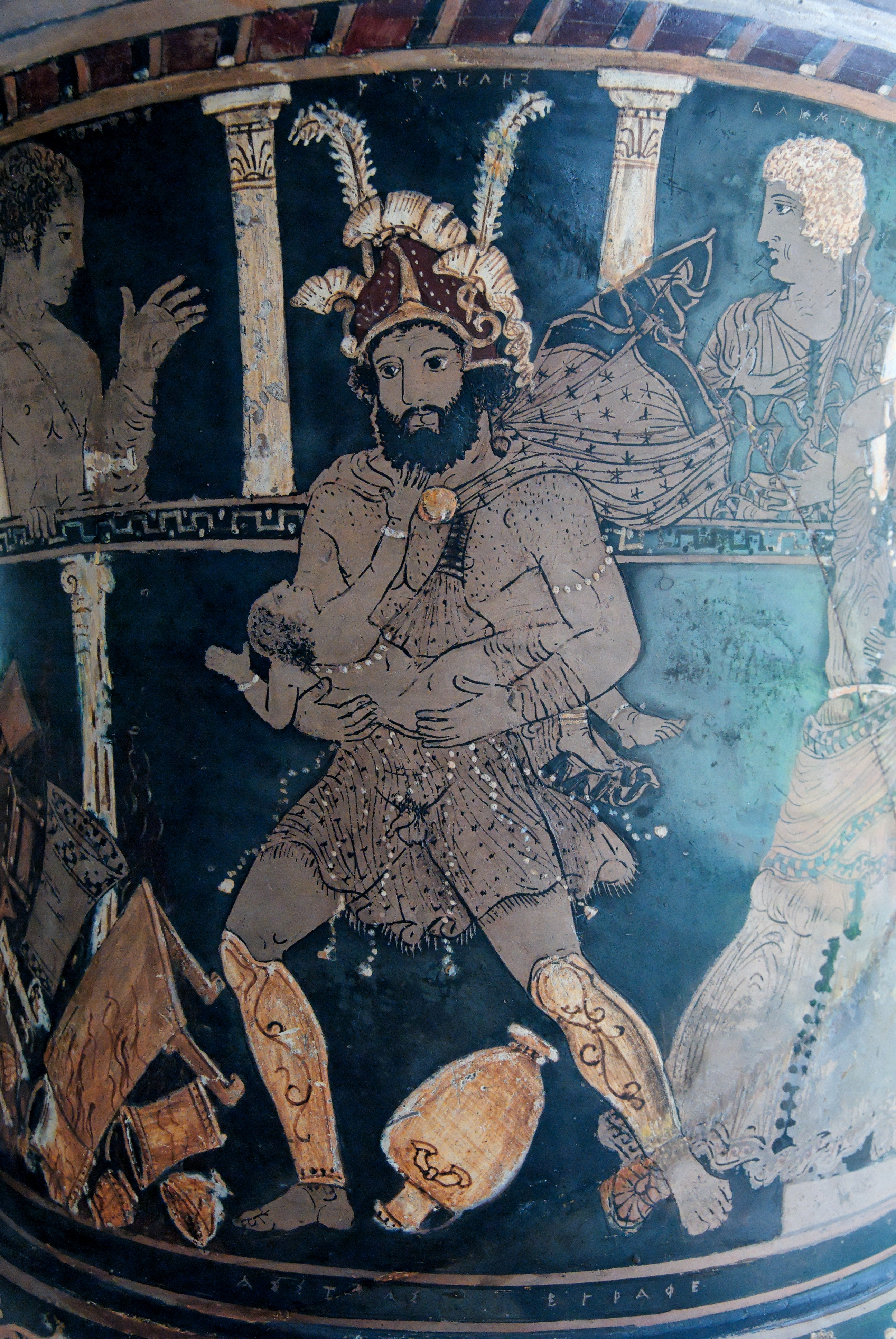 Calyx type. Side A.